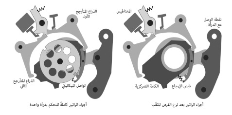 Rotary dobby device